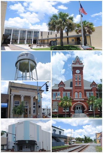 Photos I took around Starke, Florida